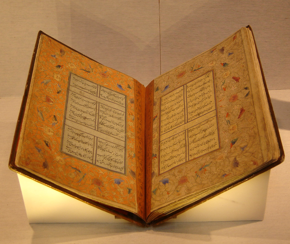 Khamseh (Quintet) of Nezami. Afghanistan, Herat, 1524-1525.